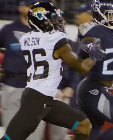 Jarrod Wilson 2019. Image from video Titans Mic'd Up vs. Jaguars (Week 12) | Sounds of the Game, ~ 02:10